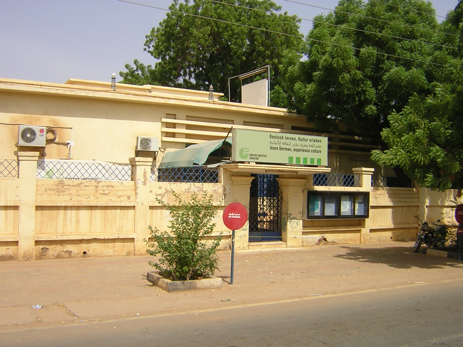 Goethe-Institut Khartoum, Al-Mak Nimir Street, Khartoum, Sudan.